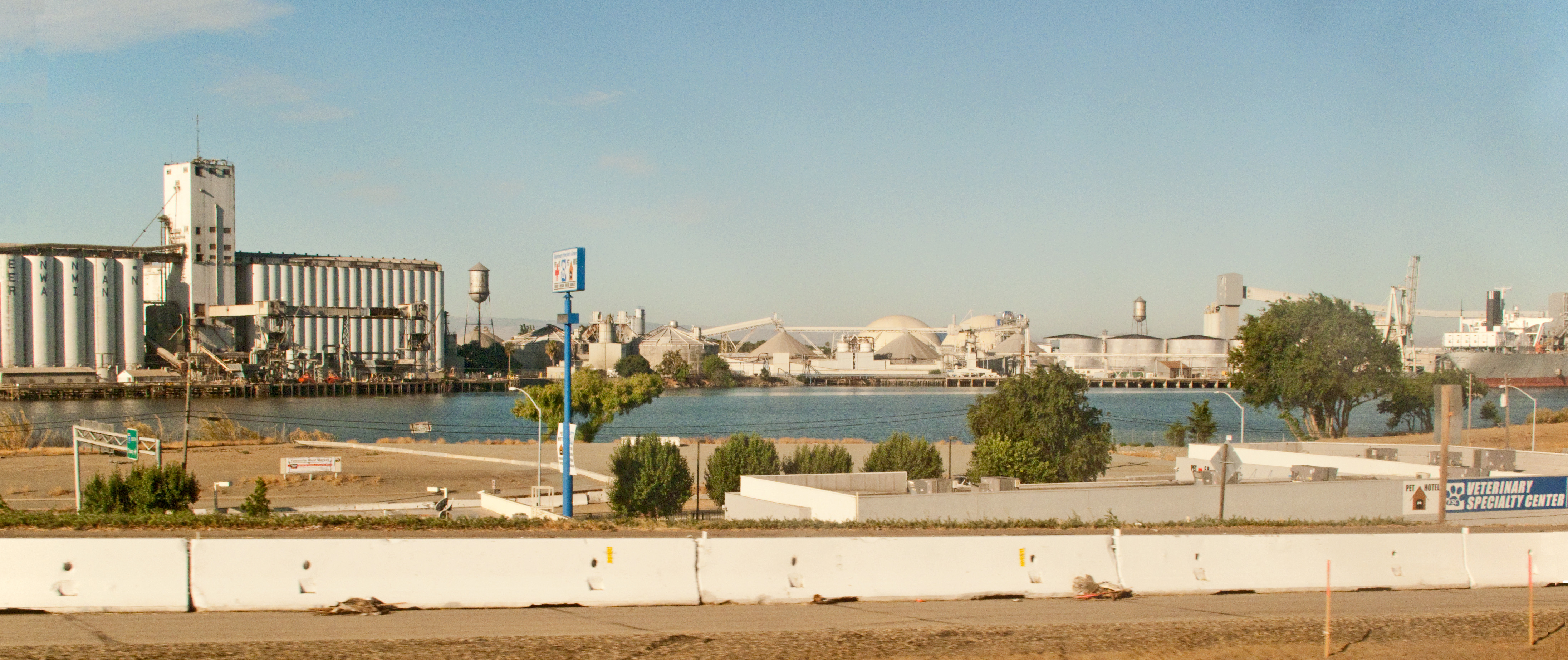 Partial view of the Port of Stockton, seen from Interstate-5.